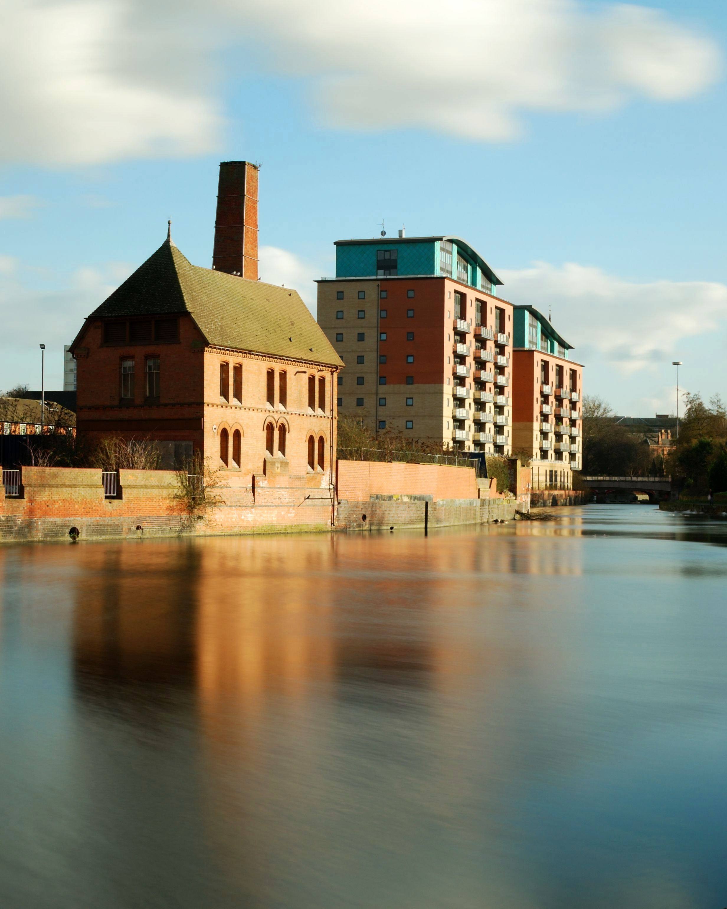 A former steam-powered pump house, part of the nineteenth-century Friars Mill complex in Leicester, with new river-side developments, by the River Soar[1]